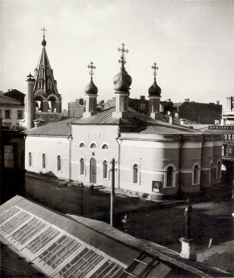 Church of the Nativity of the Theotokos in Stoleshniki, Moscow.